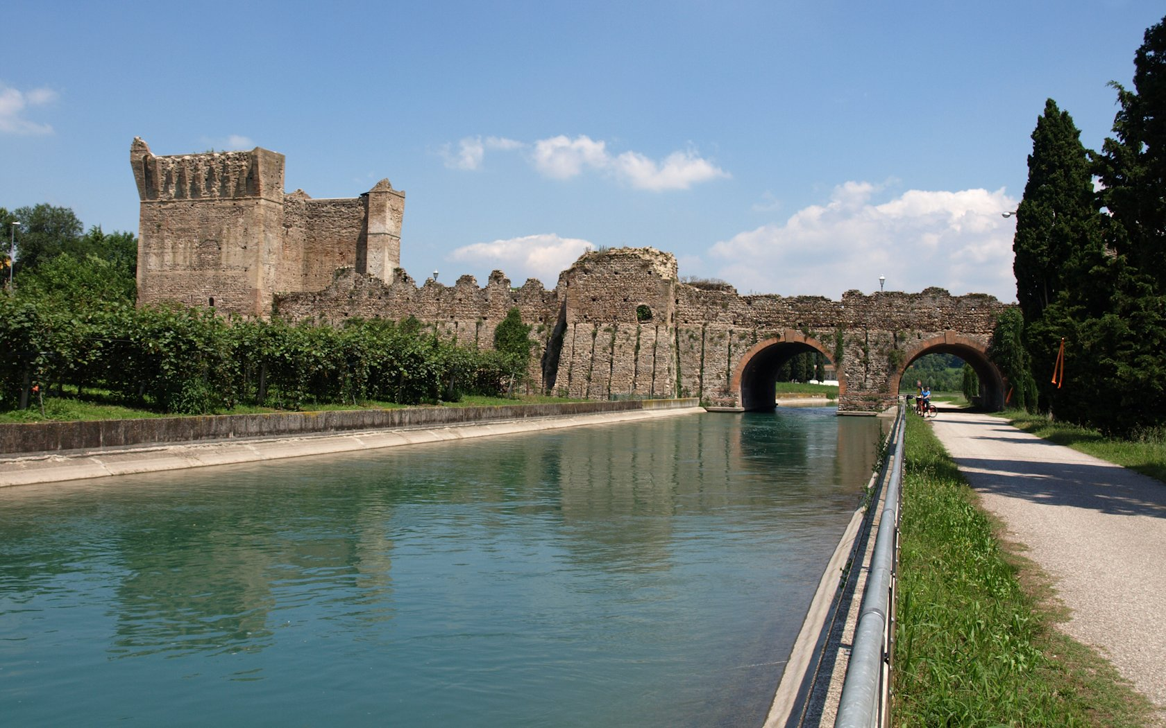 Valeggio sul Mincio (Veneto - Italien), Ponte Visconteo, photo 2011